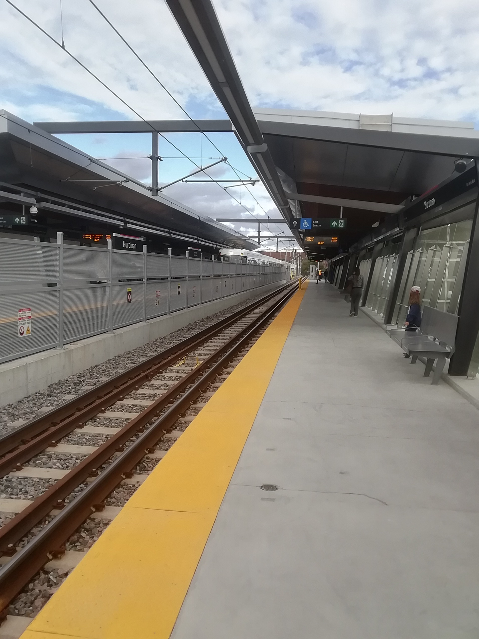 The platform at Hurdman Station